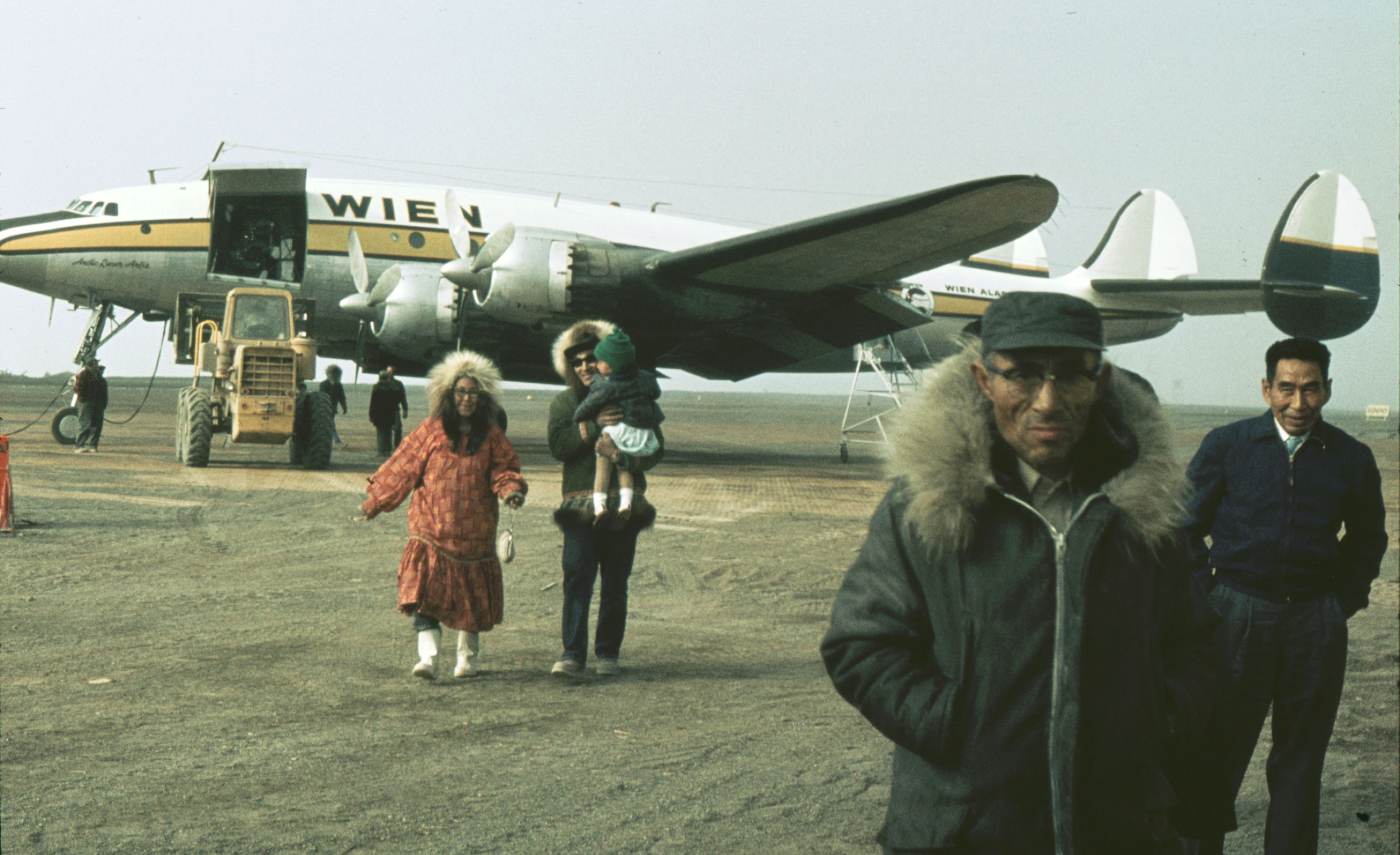 Iñupiat people at Barrow Airport, in front of a Wien Air Constellation (N7777G)